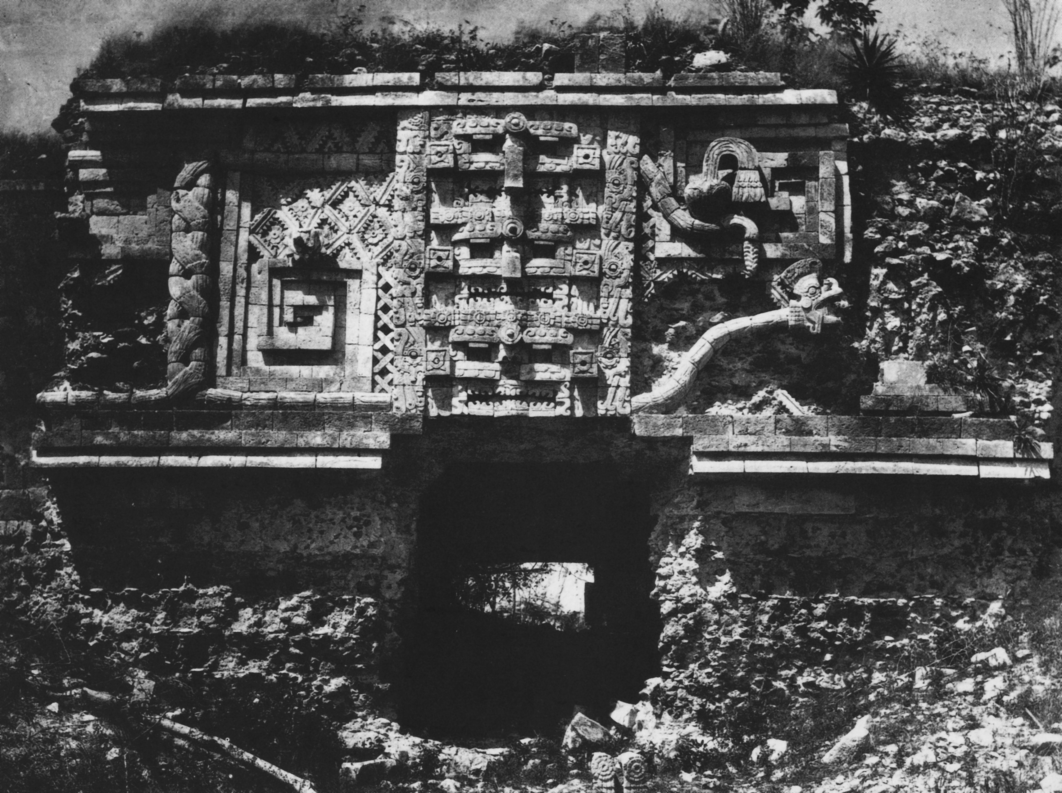 Uxmal, Yucatan, Mexico: Monjas, west building, detail